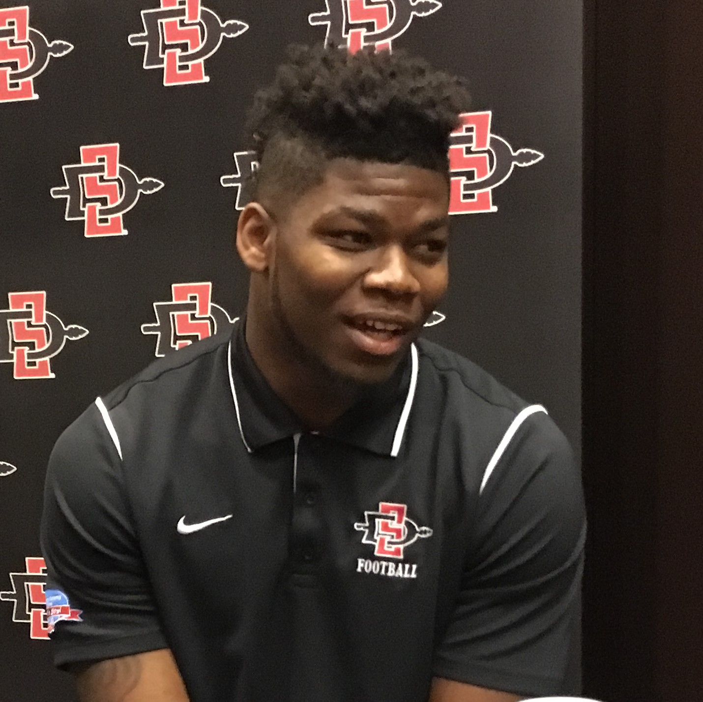 Rashaad Penny, running back for the San Diego State Aztecs football team, at the 2017 Mountain West Conference Media Days in the The Cosmopolitan in Las Vegas.